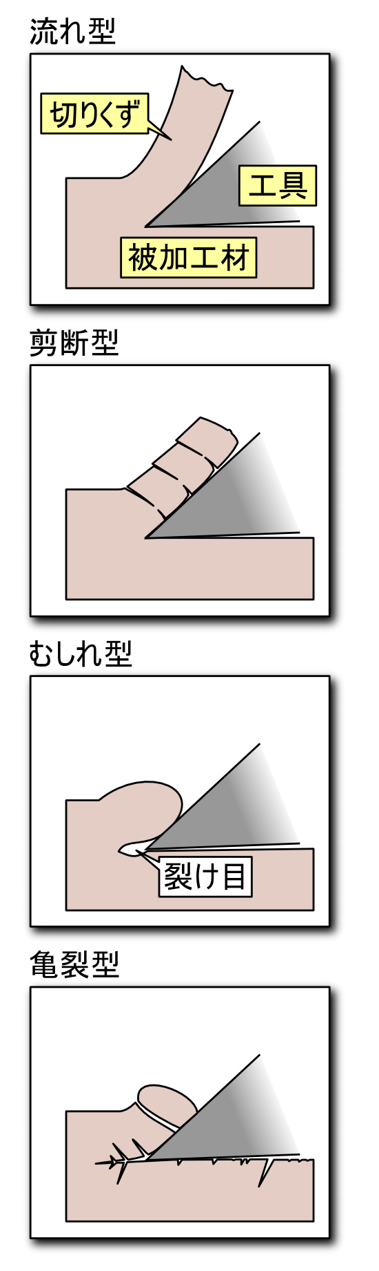 Cutting work #2